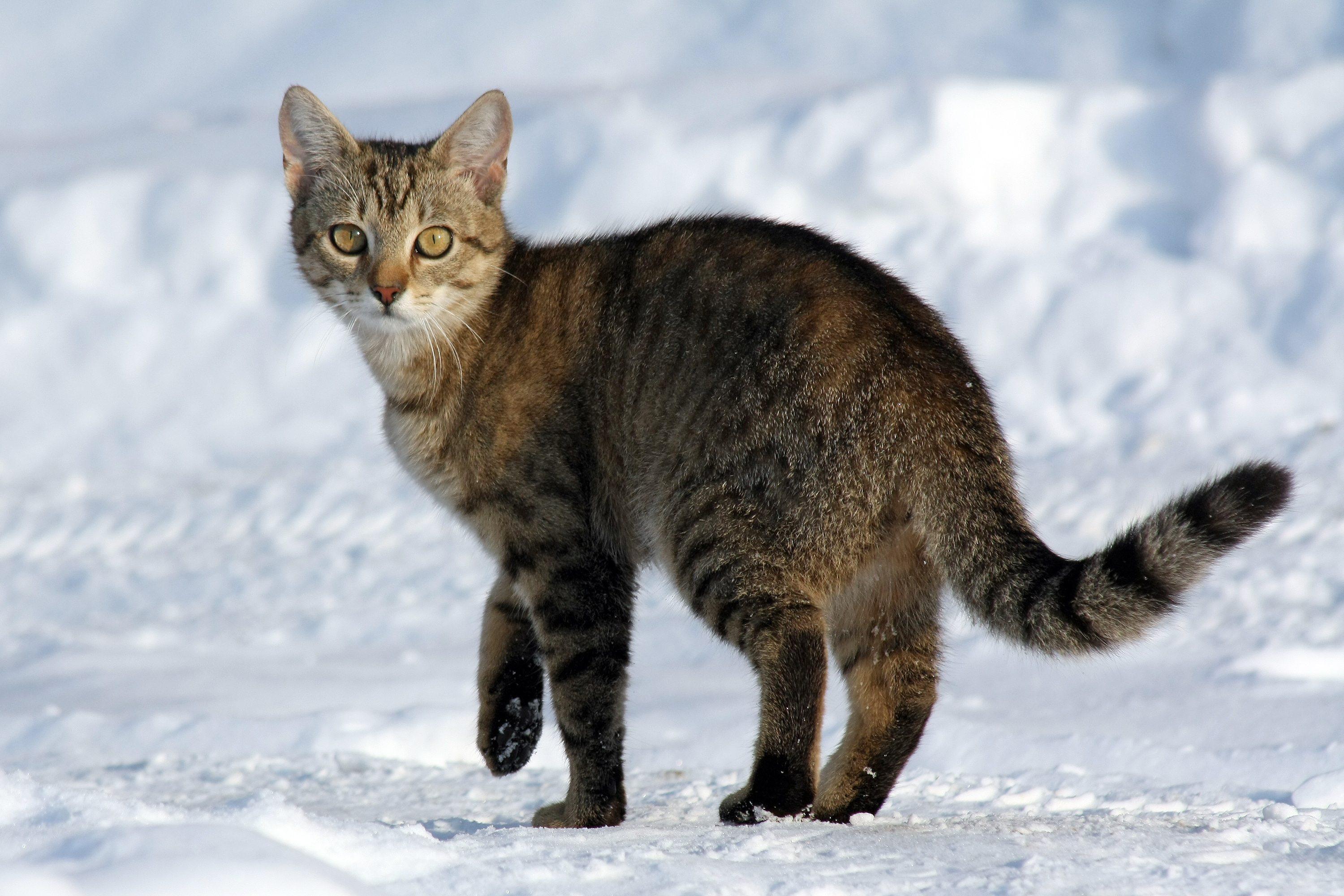 Domestic cat, a ten month old female.